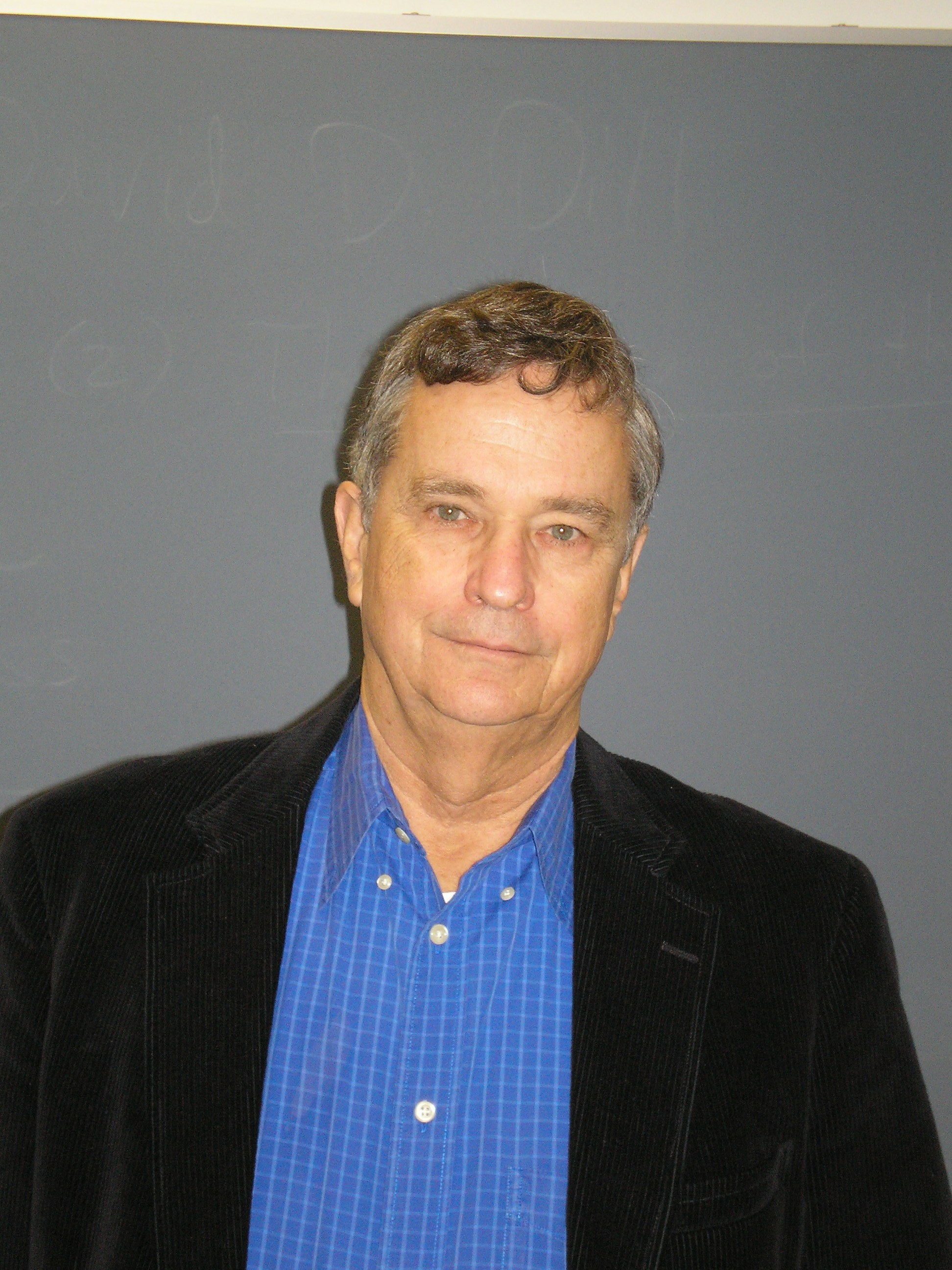 I took this picture with Prof. Carter's consent at UNC, and release it under the GFDL